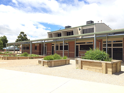 Gisborne SC Library, refurbished in 2006.